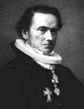 born August 19, 1808 in Flensburg, Duchy of Schleswig (now Germany); died February 3, 1884 in Copenhagen, Denmark) was a Danish theologian and academic, who in 1854 gave up his educational career and was made bishop of Seeland, the Danish Primate. The "official" eulogy he pronounced upon Bishop Jakob P. Mynster (1775-1854) in 1854, in which he affirmed that the deceased man was one of the authentic truth-witnesses of Christianity to have appeared in the world since apostolic times brought down upon his head the invectives of the philosopher Søren Kierkegaard (thus triggering the father of existentialism's attack on official Christendom).